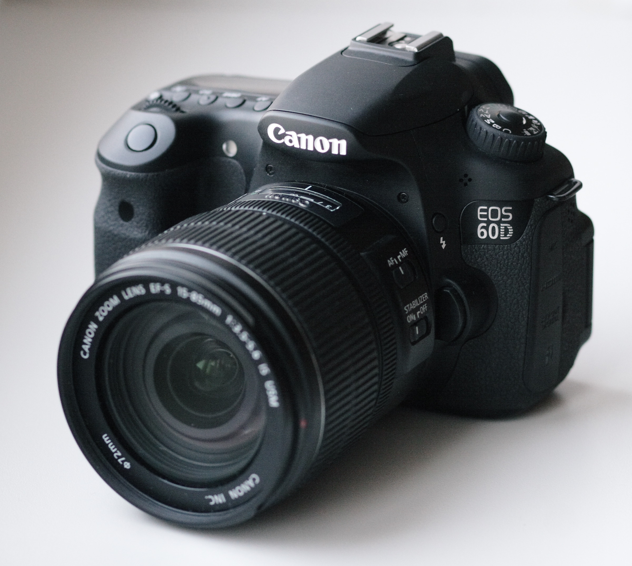 Canon EOS 60D with Canon EF 15-85 mm lens